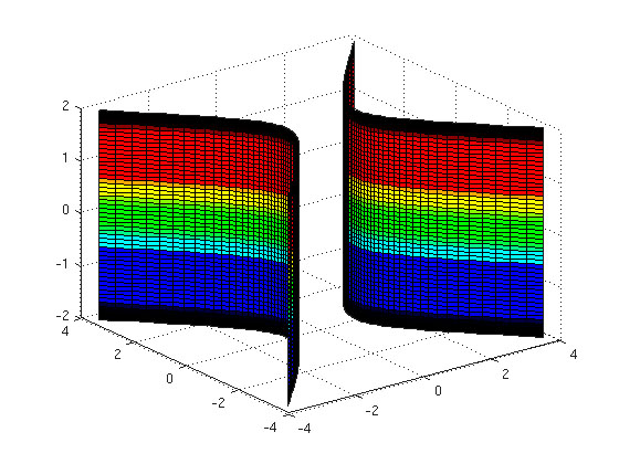 hyperbolic cylinder